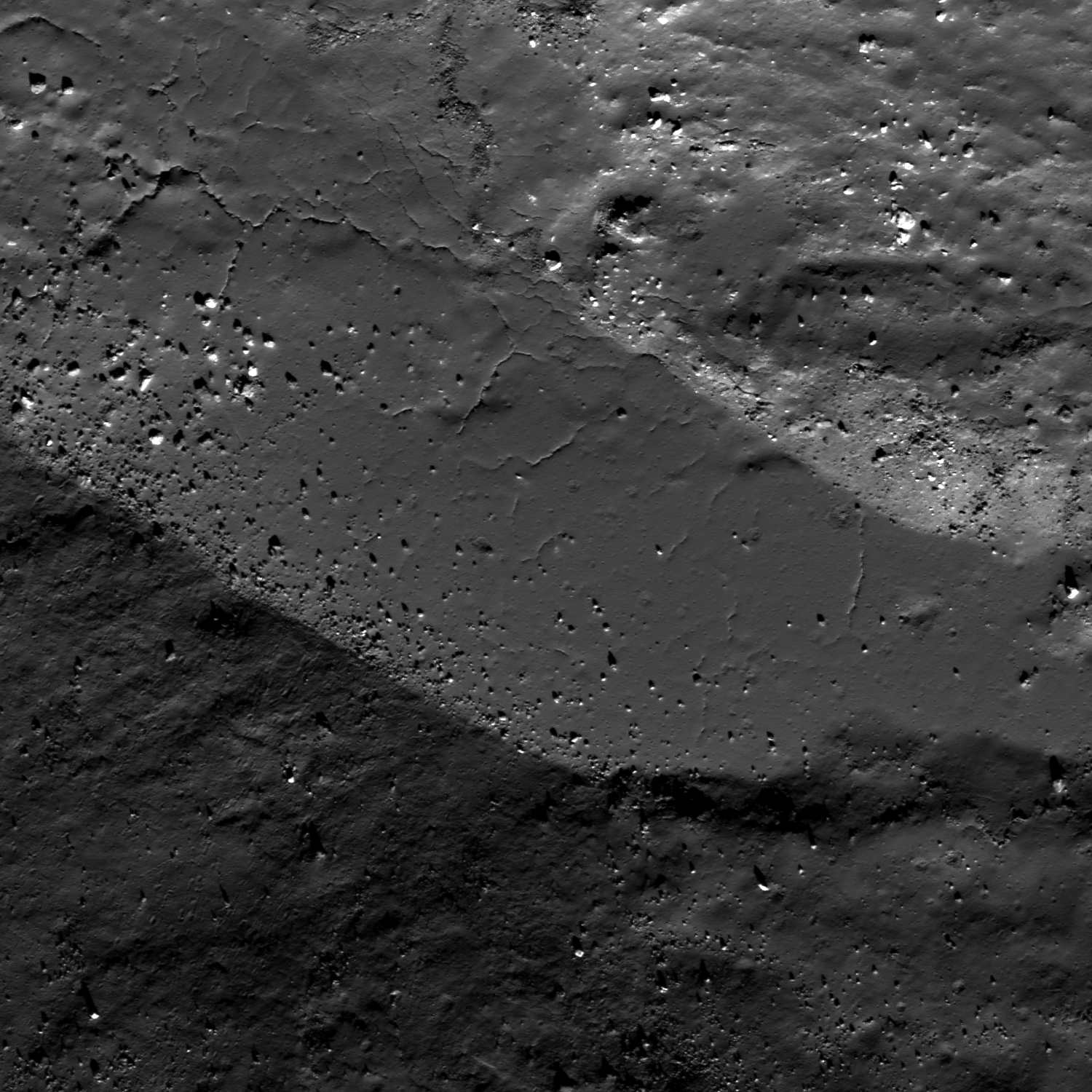 Cracks in impact melt inside Thales crater. The smooth impact melt is fractured and then sprinkled with boulders from the neighboring slope. LROC NAC M157270357R, image scale is 0.53 meters/pixel, incidence angle is 62° [NASA/GSFC/Arizona State University].